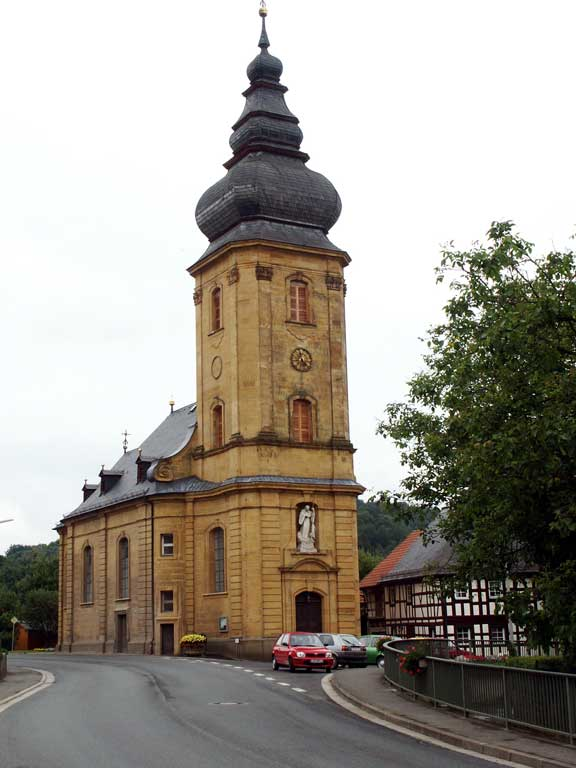 Church of St. Ägidius (Giles) in Frauendorf, Bavaria